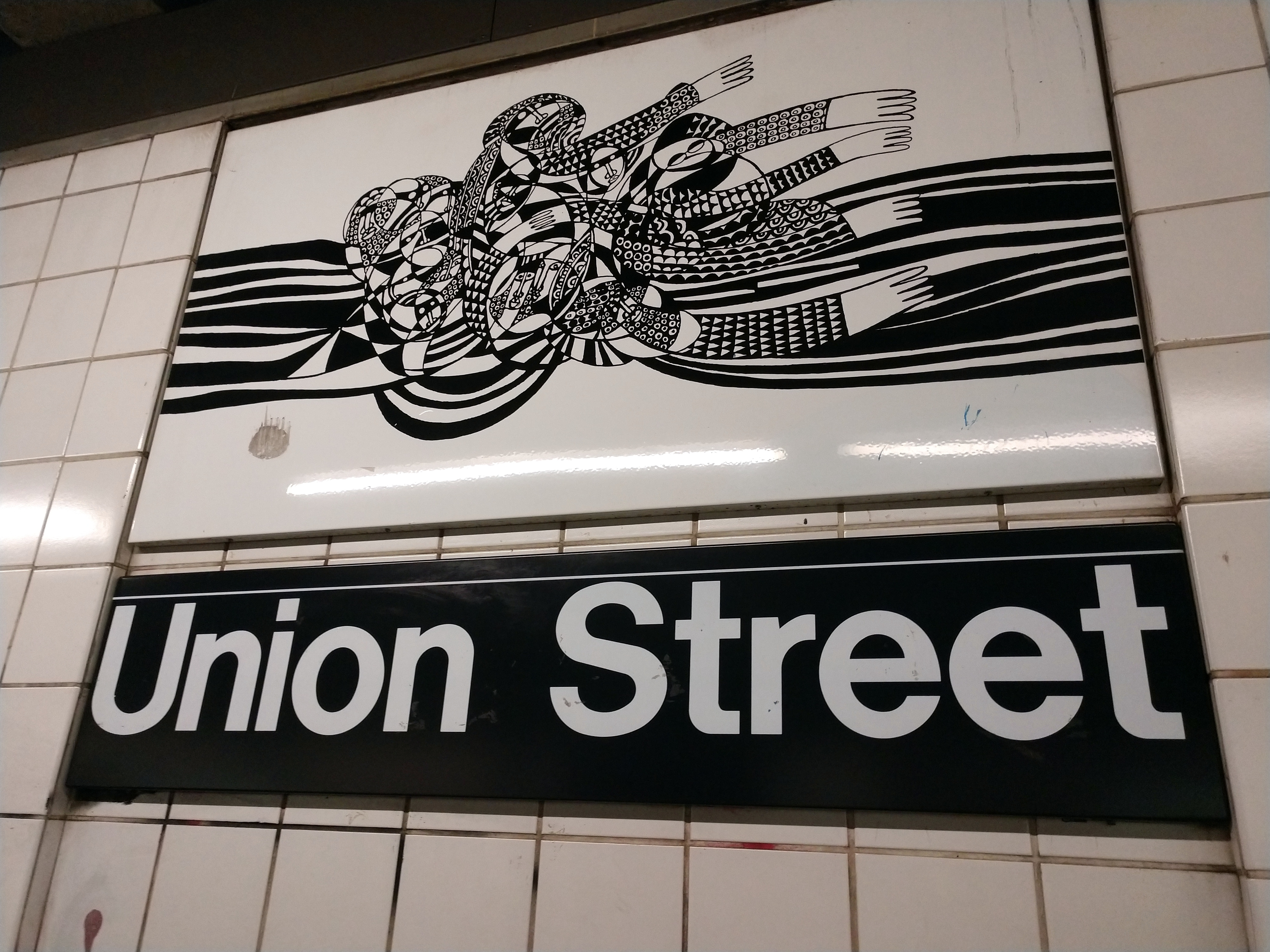 Subway Stuff and Brooklyn